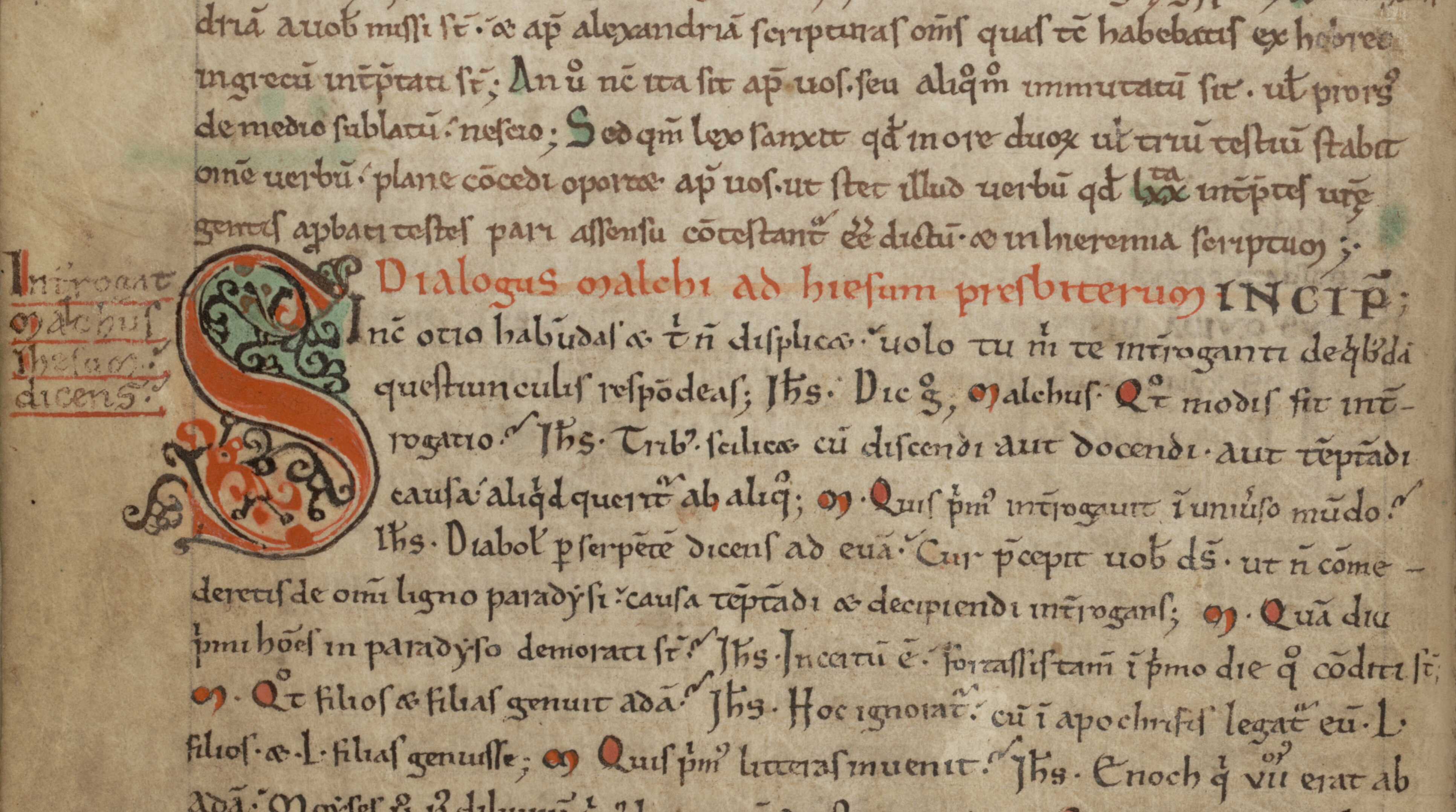 Liber Floridus manuscript. Written by Lambertus a S. Audomaro in Saint-Omer. Published in 1121.